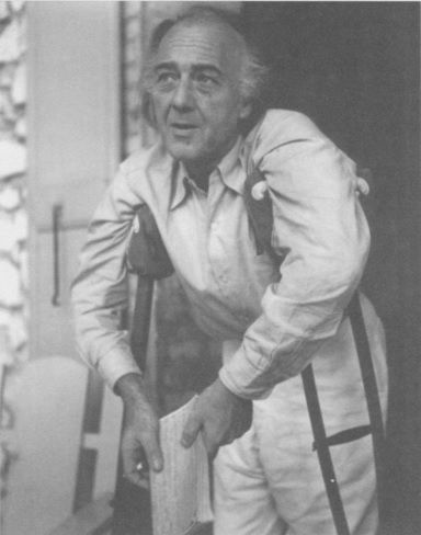 Werner A. Jaegerhuber is a musician , composer, ethnographer and professor of Haitian music.